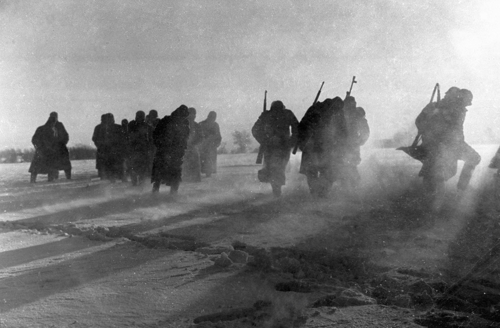 German soldiers going to surrender on a snow-covered field near Moscow.